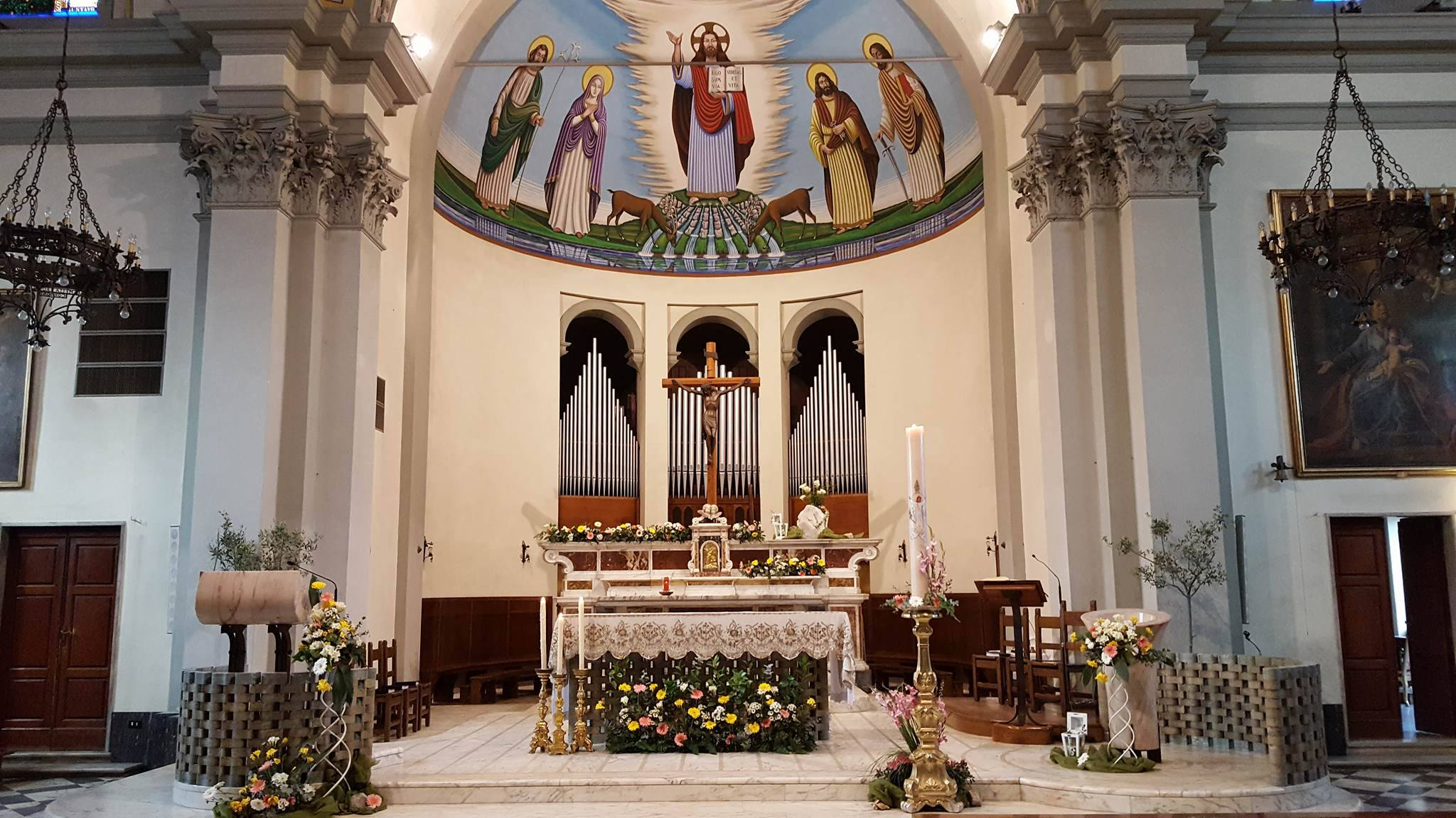 Altare della chiesa di San Giuseppe